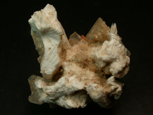 Bassanite Locality: Kimba, Eyre Peninsula, South Australia, Australia Original description: A 3.0 by 2.6 cms white mass with some Gypsum crystals. JSS specimen and photo.